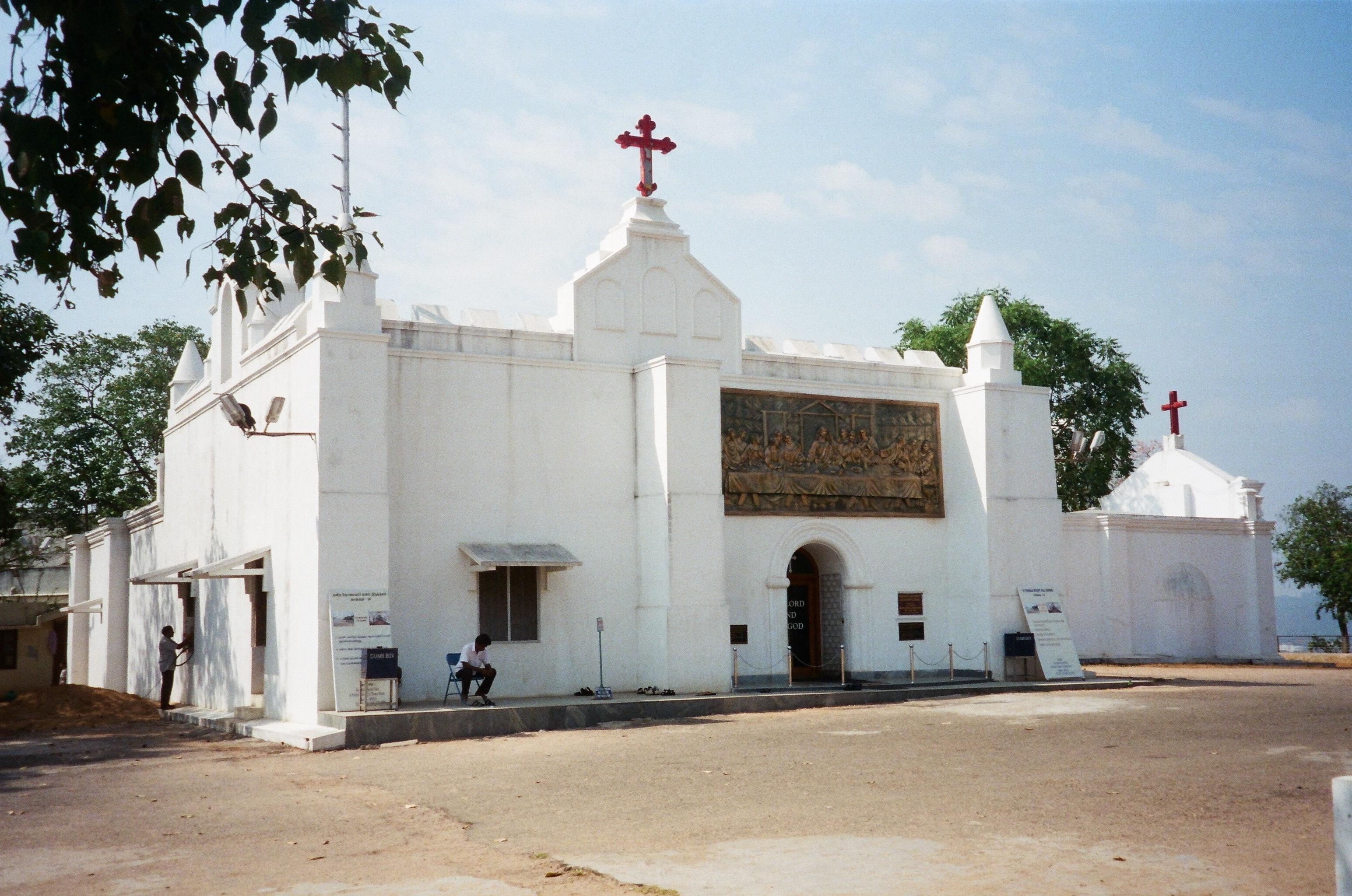 St. Thomas Church on the Mount